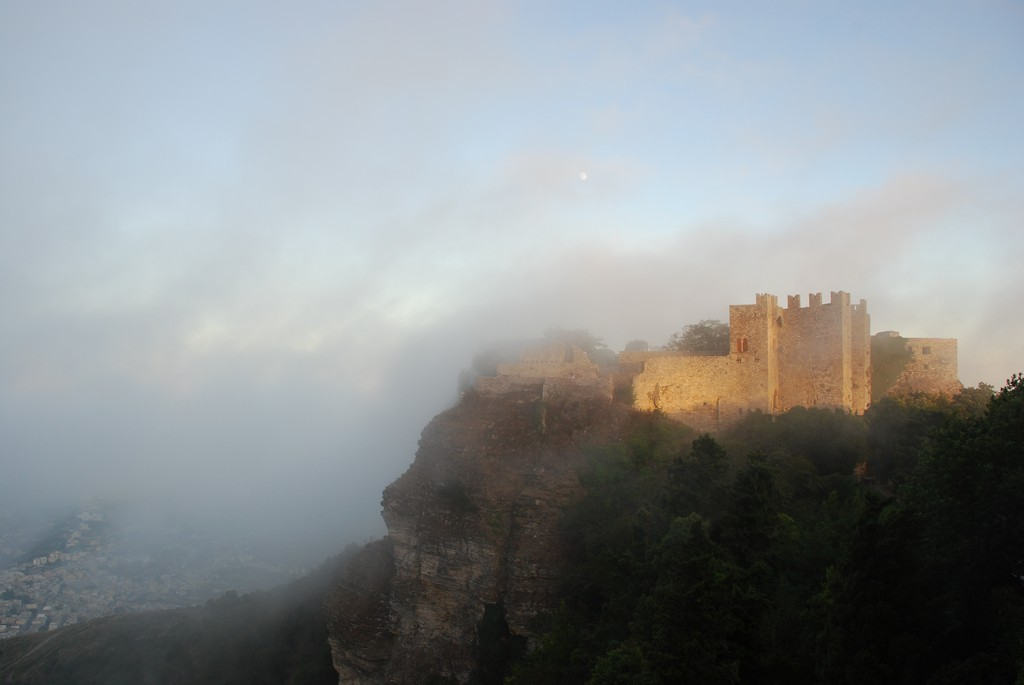 A fantasy view of the castle of Erice